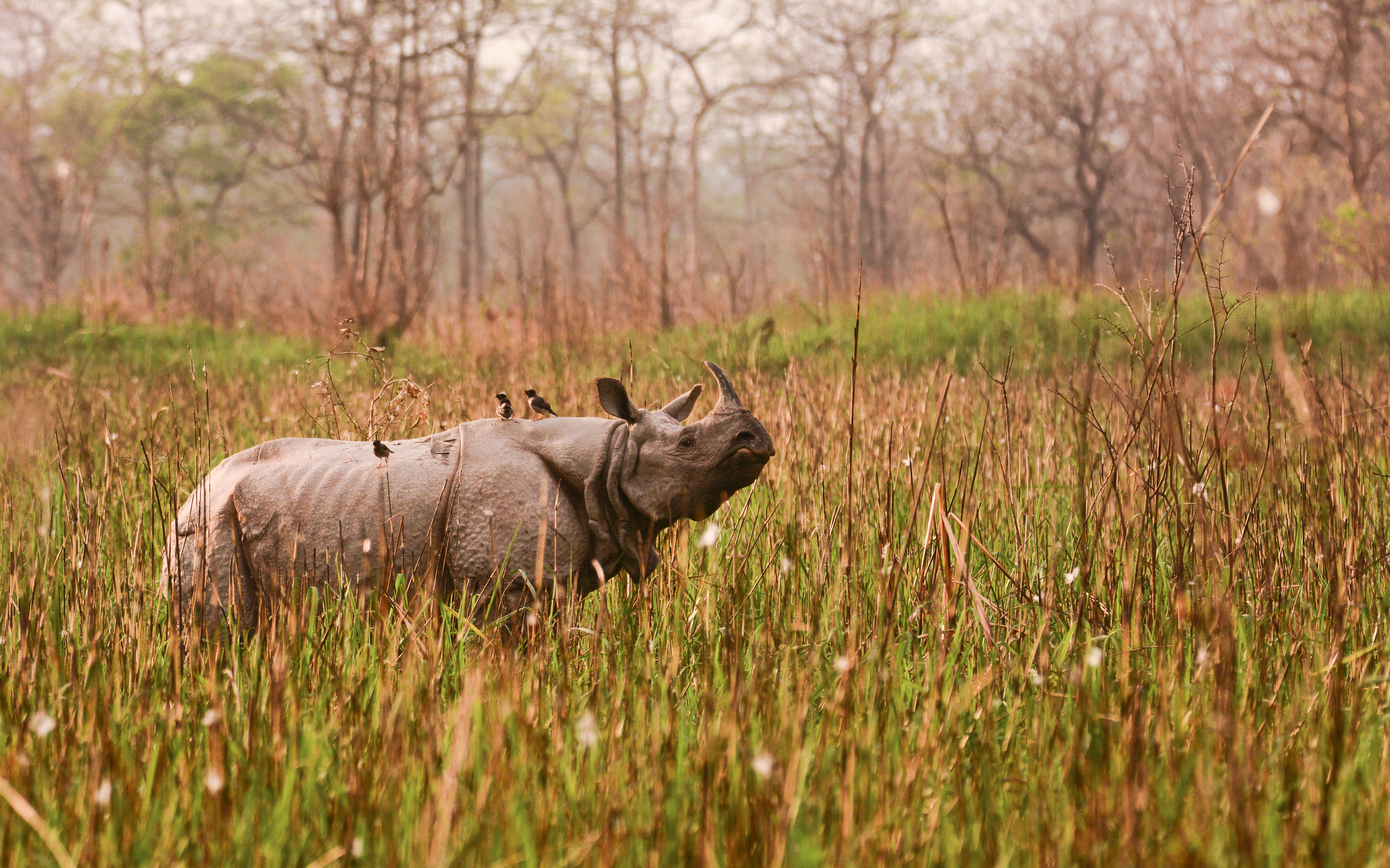 The greater one-horned rhinoceros (Rhinoceros unicornis) also called as the Indian rhinoceros, great Indian rhinoceros. It is listed as Vulnerable on the IUCN Red List. In this frame habitat shot of Greater one-horned rhinoceros in golden hour, at Orang Tiger Reserve, Assam, India.